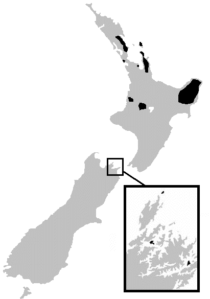 Distribution map of Leiopelmatidae.